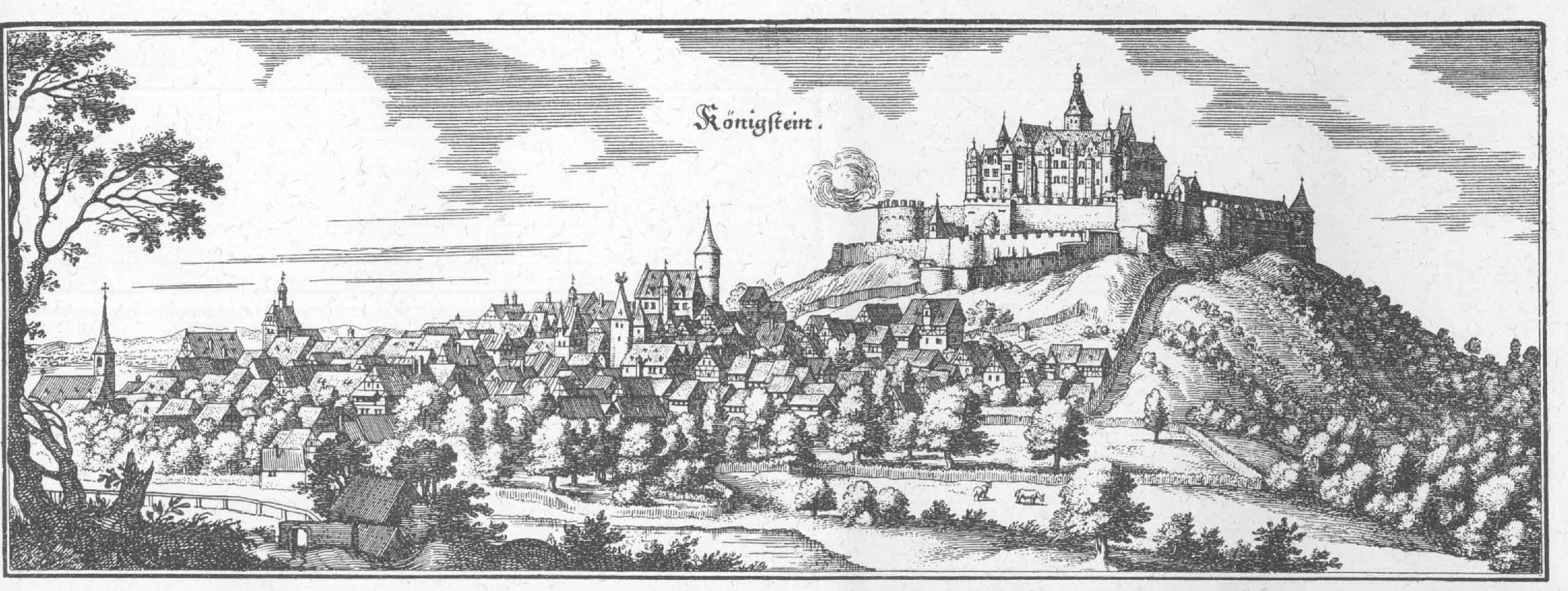 This is a scan of the historical document: Title: Koenigstein - Topographia Hassiae language: german